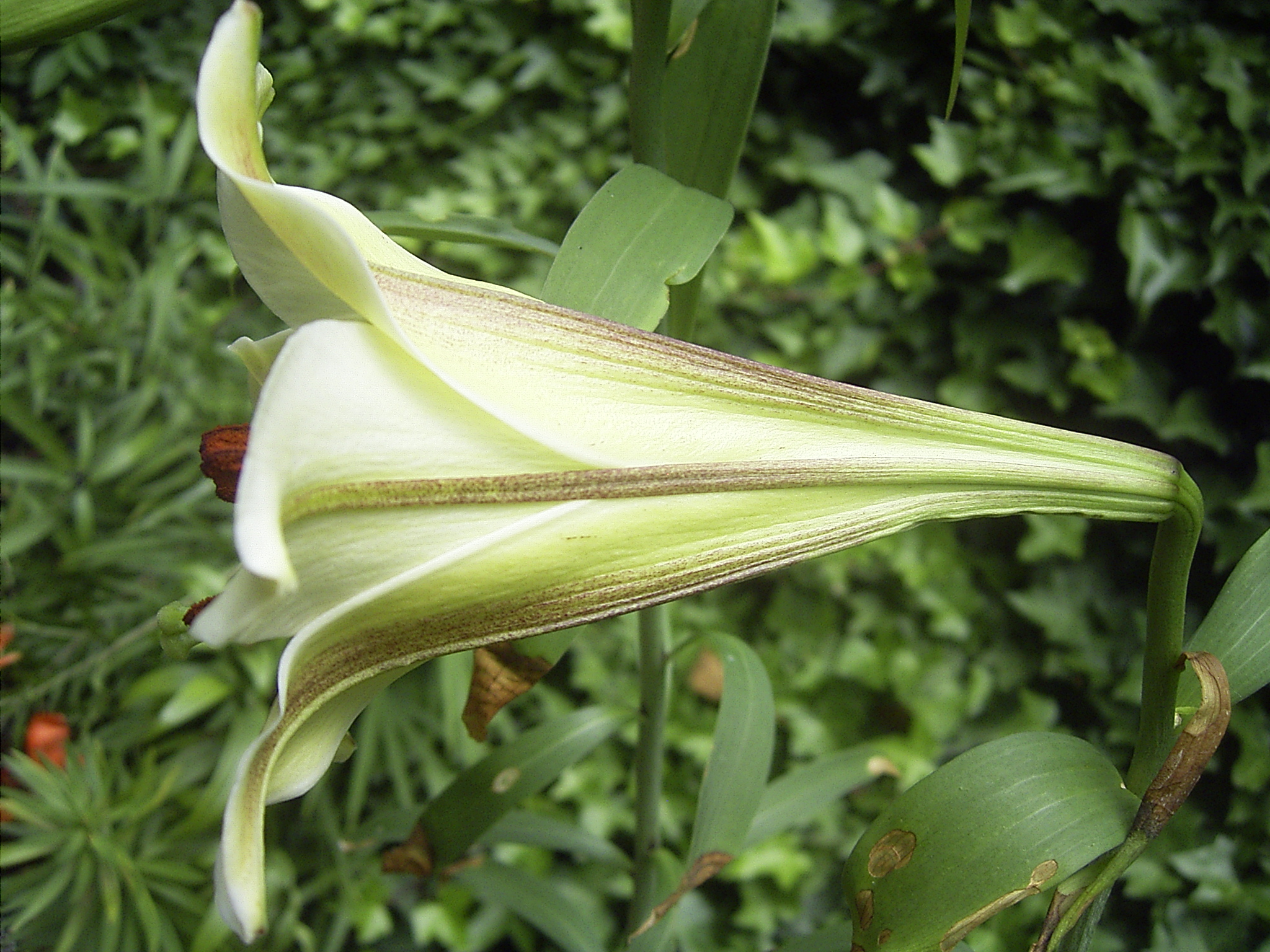 Side view on flower of Lilium brownii